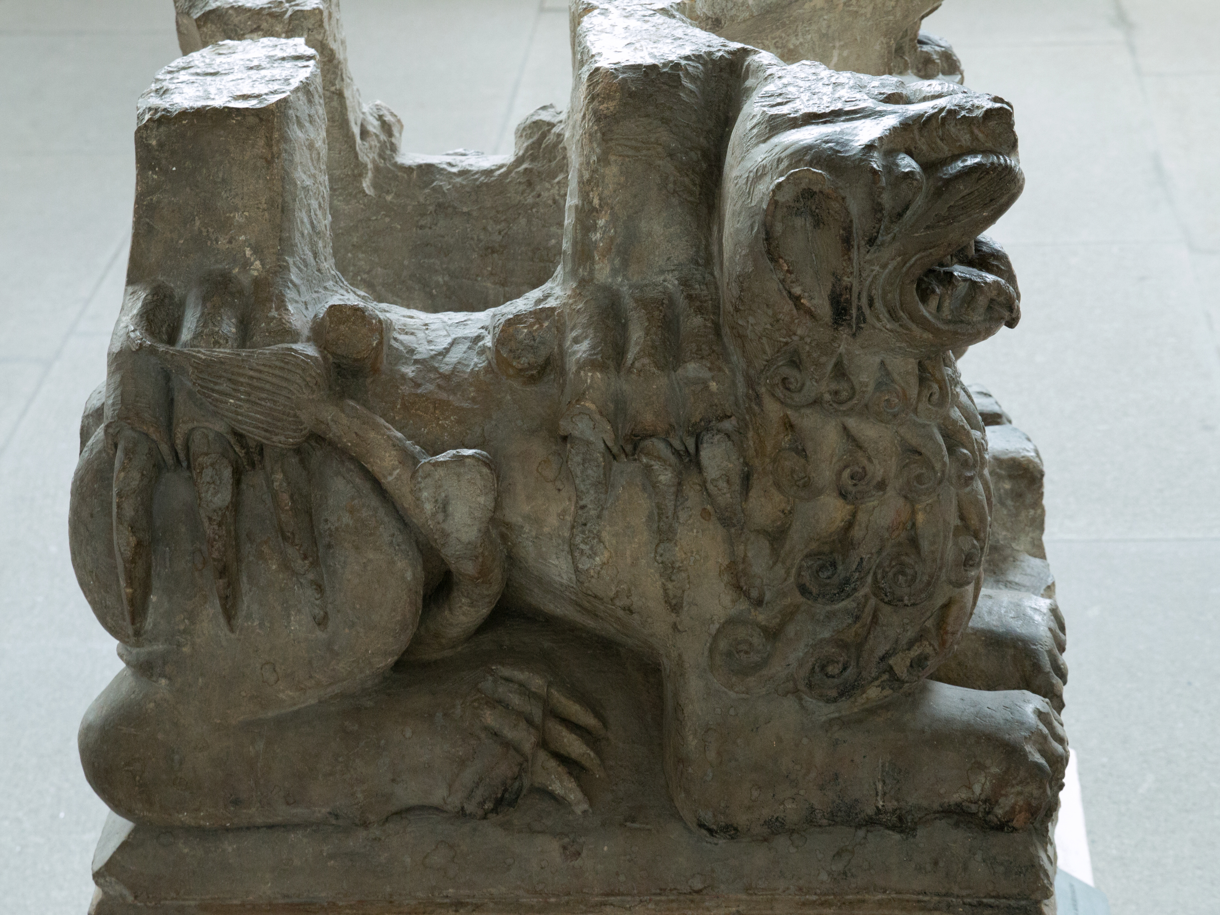 Two Lions. The base of the pulpit or the baptismal font. Former so-called older church of St. George (?) in Kouřim, 1200-1233, marlstone. (Found near St Stephen's Church in Kouřim.) Lapidarium of the National Museum in Prague, cat. no. 76.